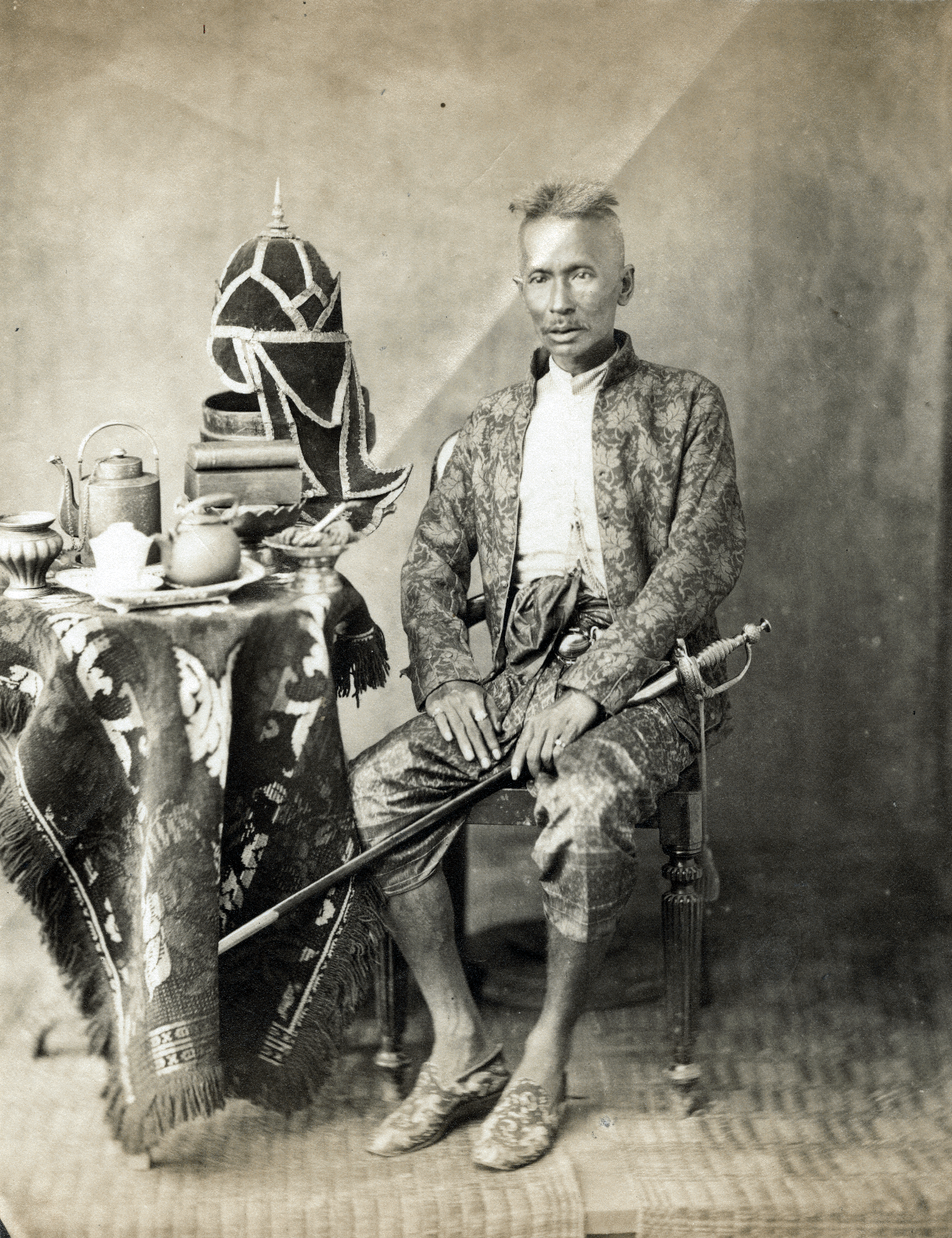 Siamese military officer portrait. He is Mom Rajodaya (Mon Rajavongse Kratai Isarankura na Ayudhaya), an interpreter in Siamese diplomatic mission to Great Britain in 1857. Undated photo, printed in 1900 Album of Photography in Siam.